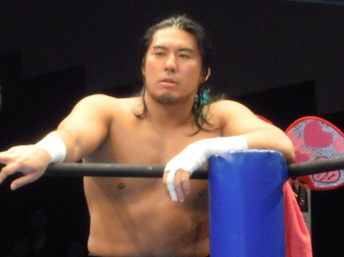 Japanese professional wrestler,GENTARO.Sep 23 2010 Ice Ribbon Korakuen Hall.